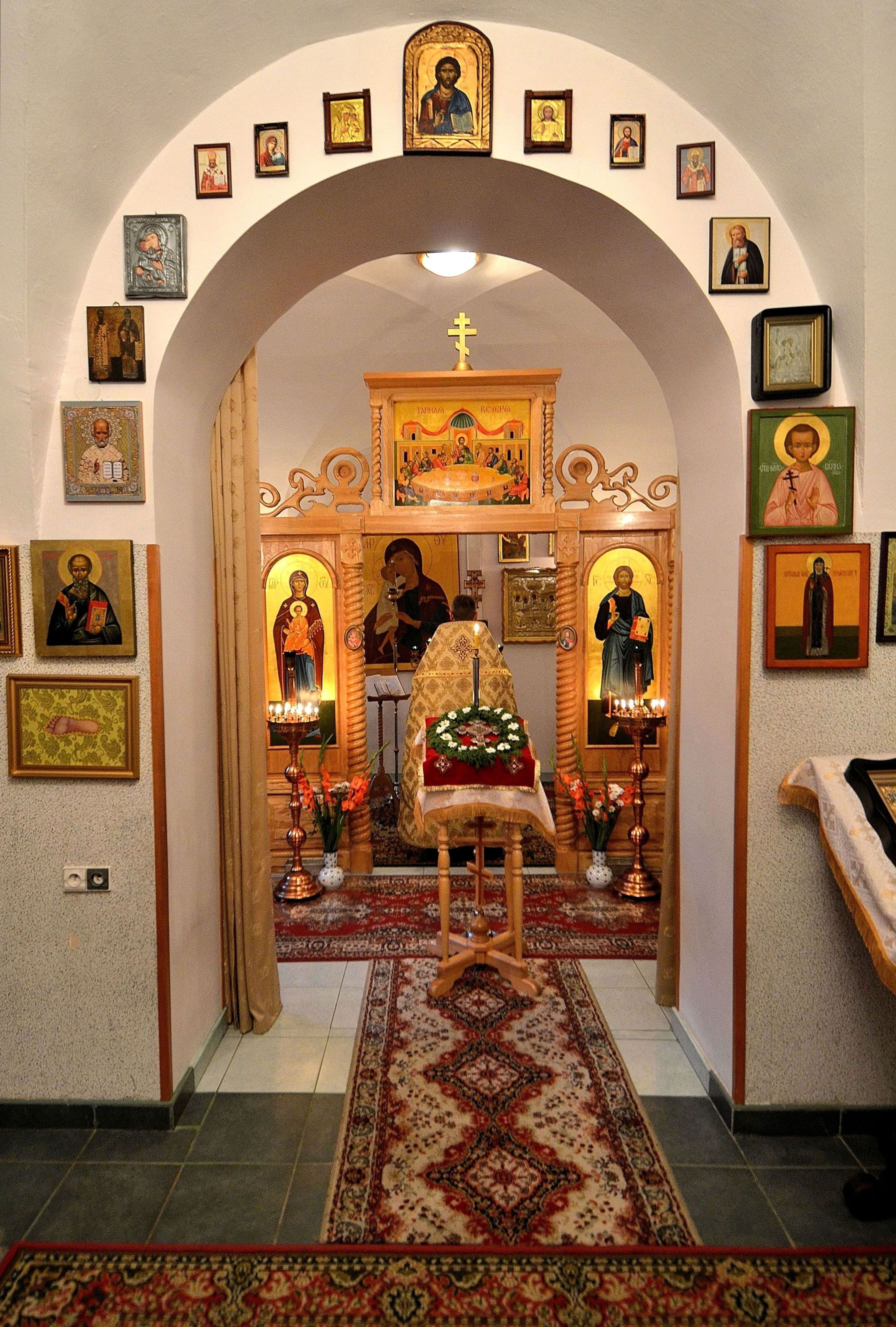 The interior of the Orthodox Holy Trinity chapel at 5 Podwale Street in Warsaw (listed in the Register of Historic Monuments on 1.07.1965, reference no. 437)